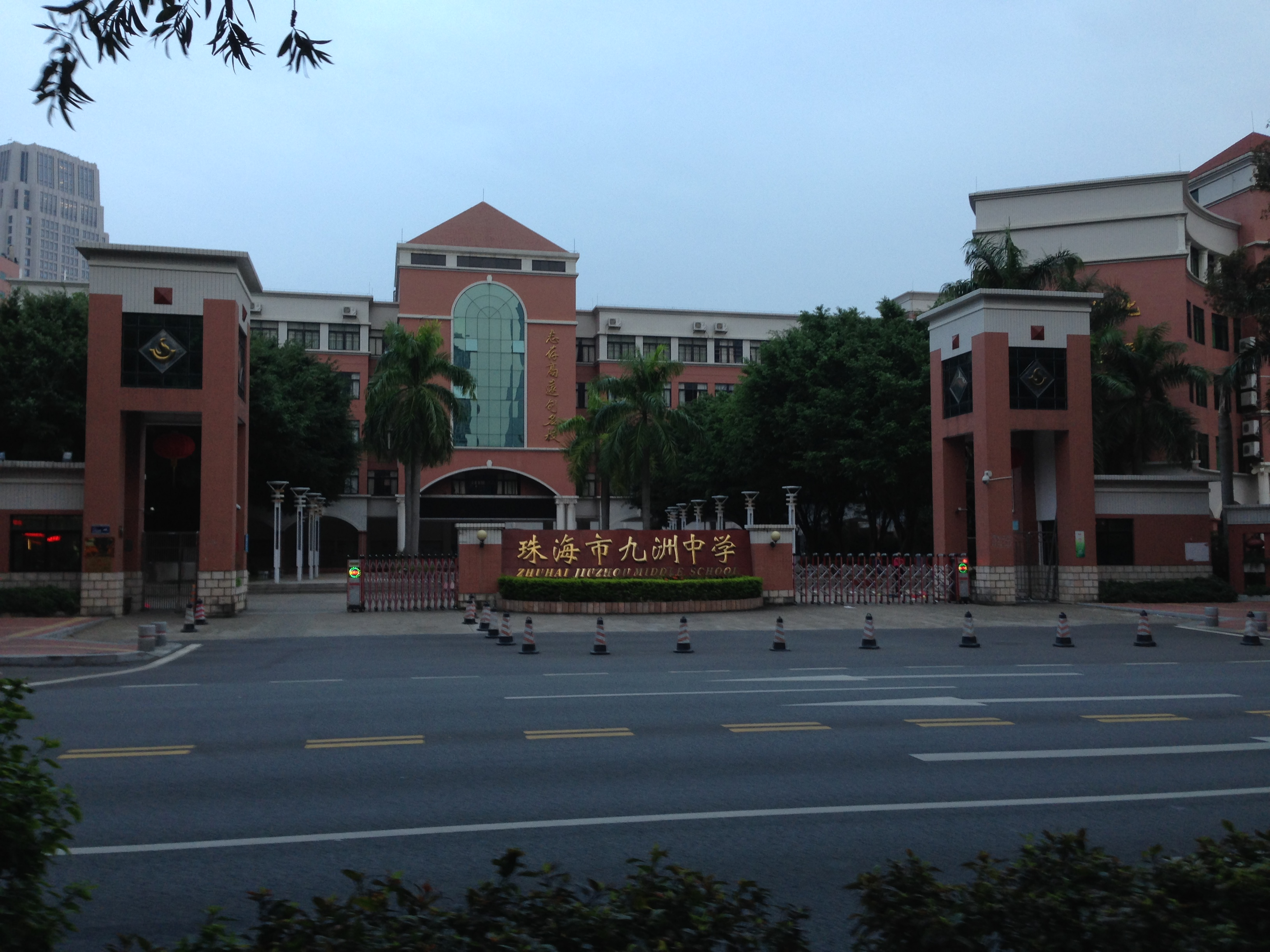 Zhuhai Jiuzhou Middle School